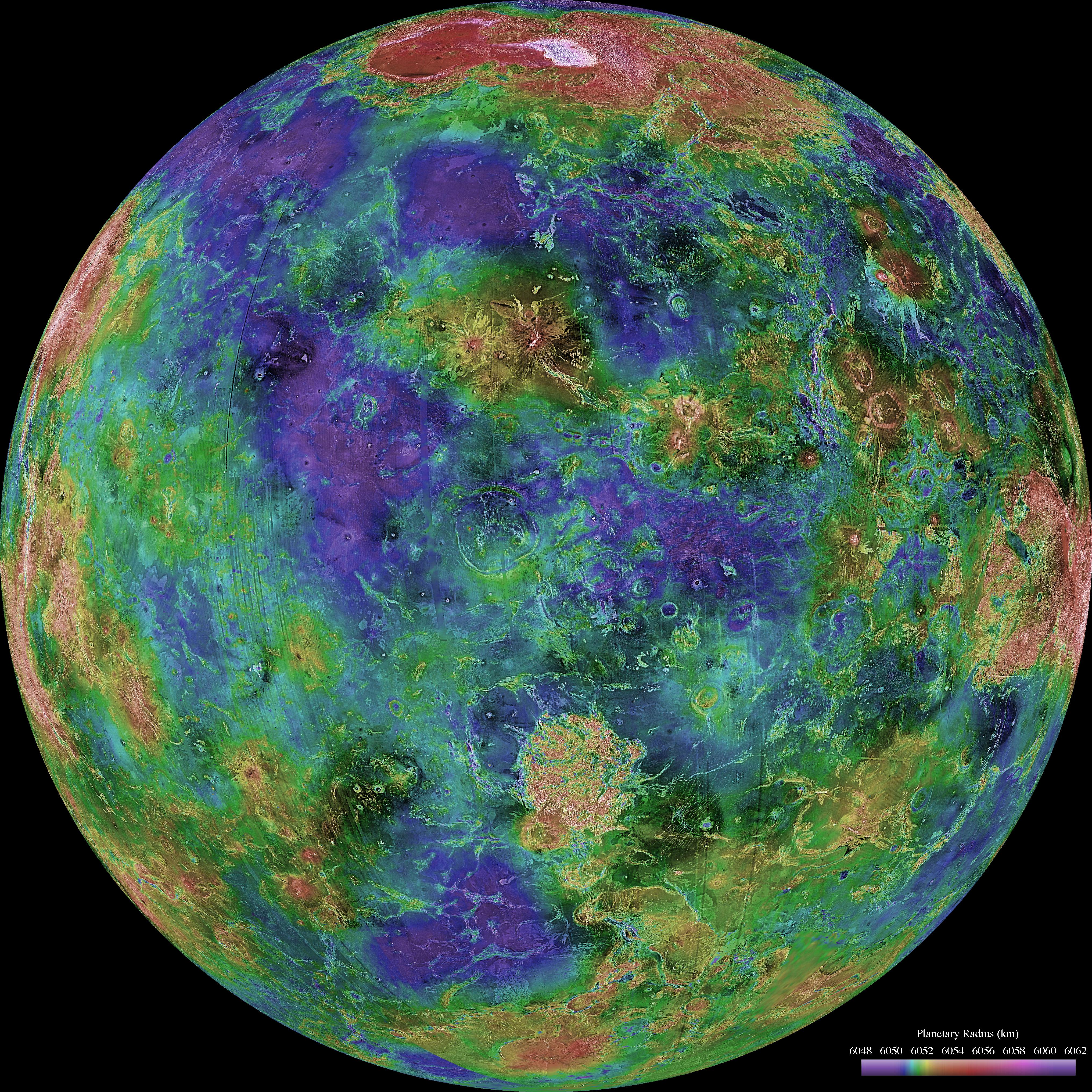 Hemispheric View of Venus Centered at 0 Degrees East Longitude Original Caption Released with Image: The hemispheric view of Venus, as revealed by more than a decade of radar investigations culminating in the 1990-1994 Magellan mission, is centered at 0 degrees east longitude. The Magellan spacecraft imaged more than 98% of Venus at a resolution of about 100 meters; the effective resolution of this image is about 3 km. A mosaic of the Magellan images (most with illumination from the west) forms the image base. Gaps in the Magellan coverage were filled with images from the Earth-based Arecibo radar in a region centered roughly on 0 degree latitude and longitude, and with a neutral tone elsewhere (primarily near the south pole). The composite image was processed to improve contrast and to emphasize small features, and was color-coded to represent elevation. Gaps in the elevation data from the Magellan radar altimeter were filled with altimetry from the Venera spacecraft and the U.S. Pioneer Venus missions. An orthographic projection was used, simulating a distant view of one hemisphere of the planet. The Magellan mission was managed for NASA by Jet Propulsion Laboratory (JPL), Pasadena, CA. Data processed by JPL, the Massachusetts Institute of Technology, Cambridge, MA, and the U.S. Geological Survey, Flagstaff, AZ.